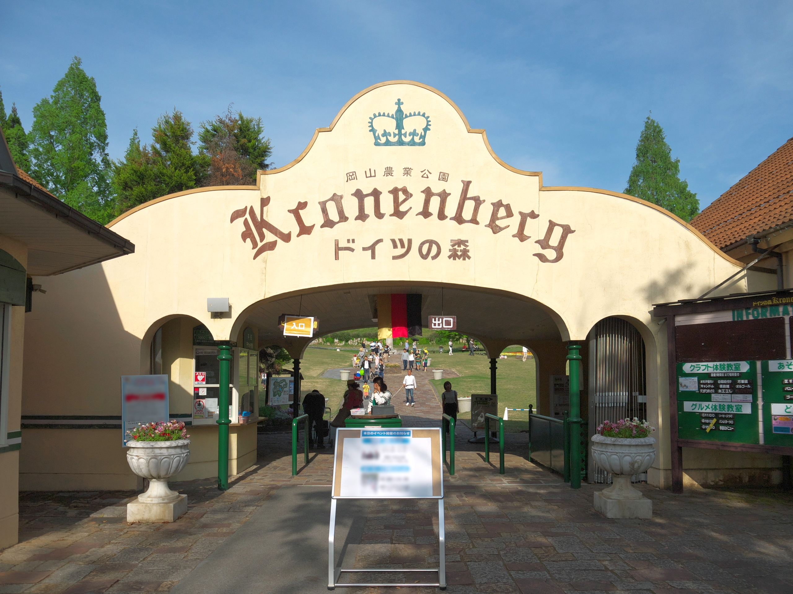 Entrance of Okayama Agriculture Park German Forest Kronenberg